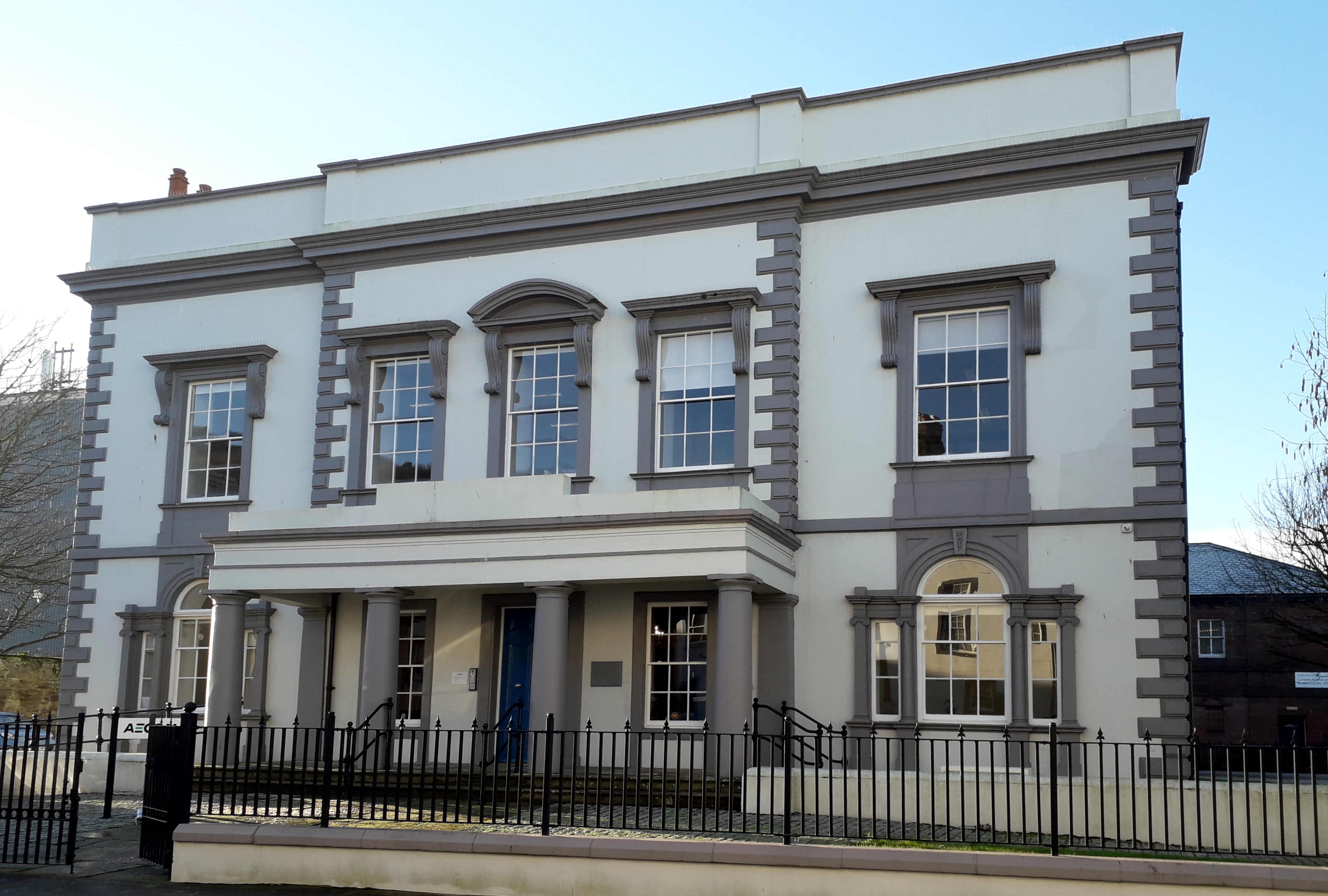 The town mansion of the Gale family of Whitehaven. Built 1710 by William Feryes, married to Mehetabel Gale. The propert passe to his wife's family. On , corner Duke Street and Scotch Street. Used as a twon hall after 1850, firstly for Harbour Commissioners, then the Corporation of Whitehaven from 1894.